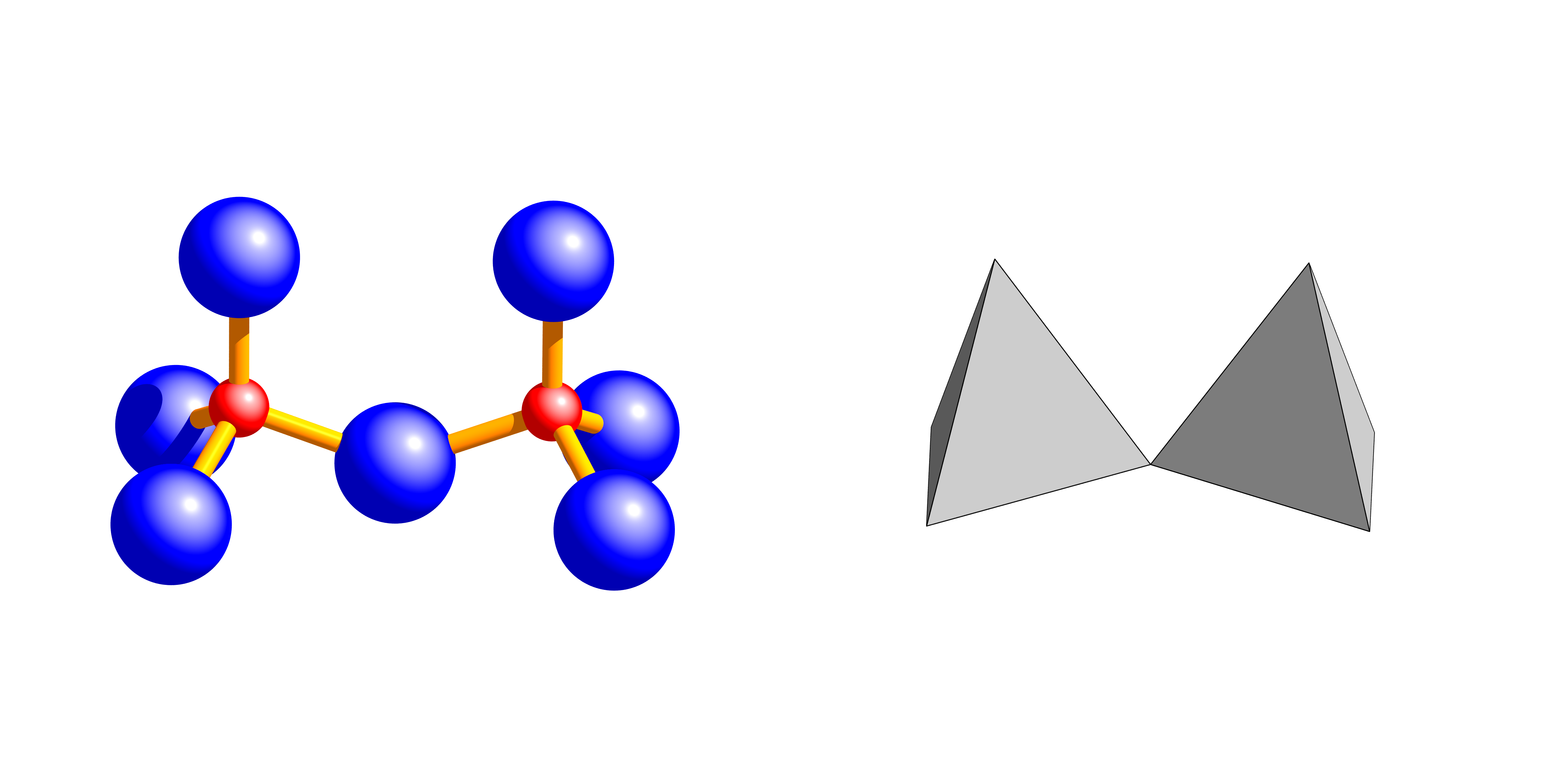 Unbranched zweier group of akermanite Data from: Kusaka K, Hagiya K, Ohmasa M, Okano Y, Mukai M, Iishi K, Haga N. (2001): Determination of structures of Ca2CoSi2O7, Ca2MgSi2O7, and Ca2(Mg.55Fe.45)Si2O7 in incommensurate and normal phases and observation of diffuse streaks at high temperature, Physics and Chemistry of Minerals 28, pp. 150-166 Calculation of image data: Larry W. Finger, Martin Kroeker, and Brian H. Toby, DRAWxtl, an open-source computer program to produce crystal-structure drawings, J. Applied Crystallography V40, pp. 188-192, 2007 Rendering: POVRAY